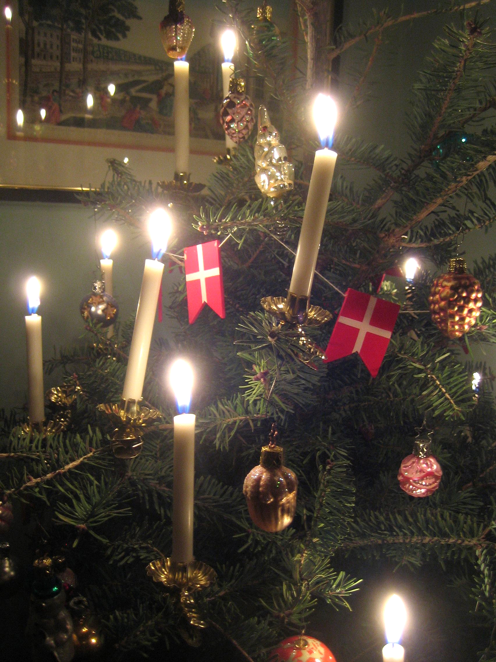 candlelit Christmas tree